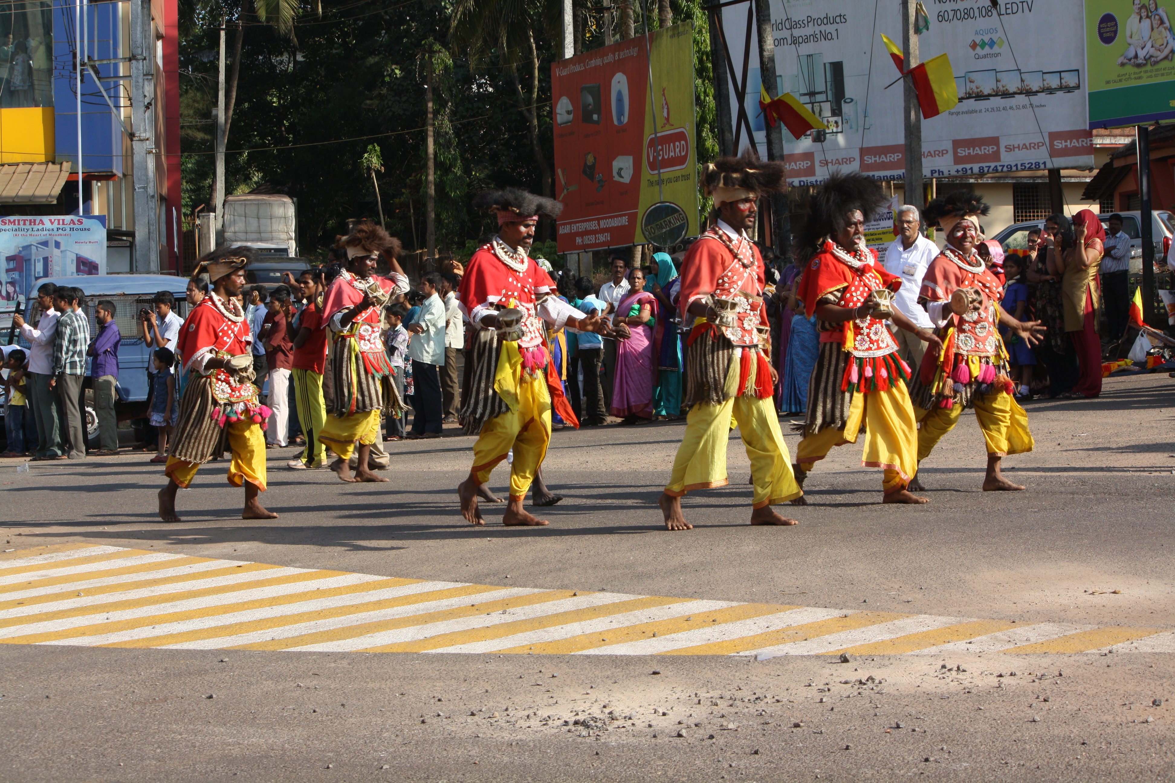 Goravara Kunitha, a kind of folk performance from Karnataka, India ಕನ್ನಡ: ಕರ್ನಾಟಕದ ಜಾನಪದ ಕಲೆ ಗೊರವರ ಕುಣಿತ